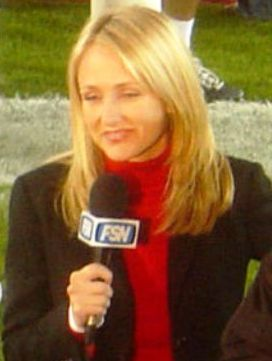 Lindsay Soto doing sideline reporting at a USC game.